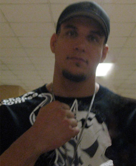 Author: Gavin Ng. Permission is on file with the WMF.